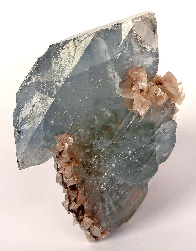 Baryte, Dolomite Locality: Frizington, West Cumberland Iron Field, North and Western Region (Cumberland), Cumbria, England, UK (Locality at ) Size: miniature, 5.2 x 3.6 x 3.1 cm Barite on Dolomite A very aesthetic miniature, especially as it is highly unusual to find such nice blue barite from here balanced on matrix. And in the miniature size, just in great proportions, it makes this one of the better small-sized blues for my taste. The crystals are complete all around and on both sides, nearly pristine (just a few very minor edge wear bits). The old label has no date but this collection was not being added to after 1910 or so and it very probably dates from the late 1800s heyday at this mining district.